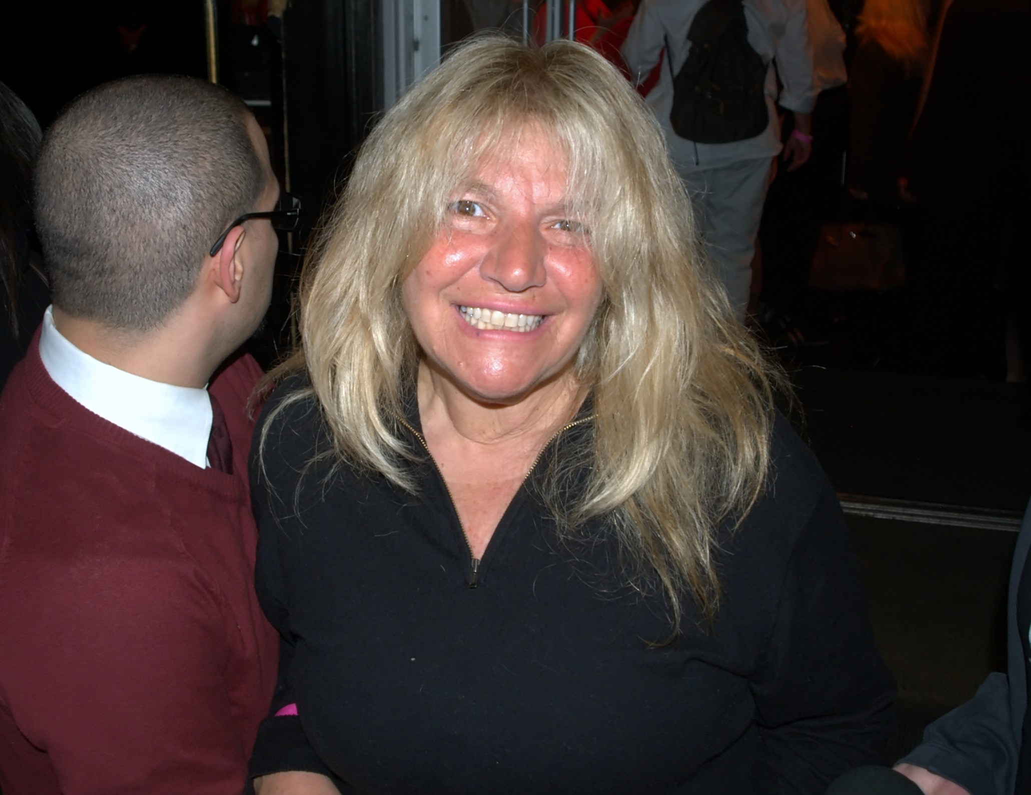 Robin Byrd, former porn star and host of public access television show, at a party in 2010